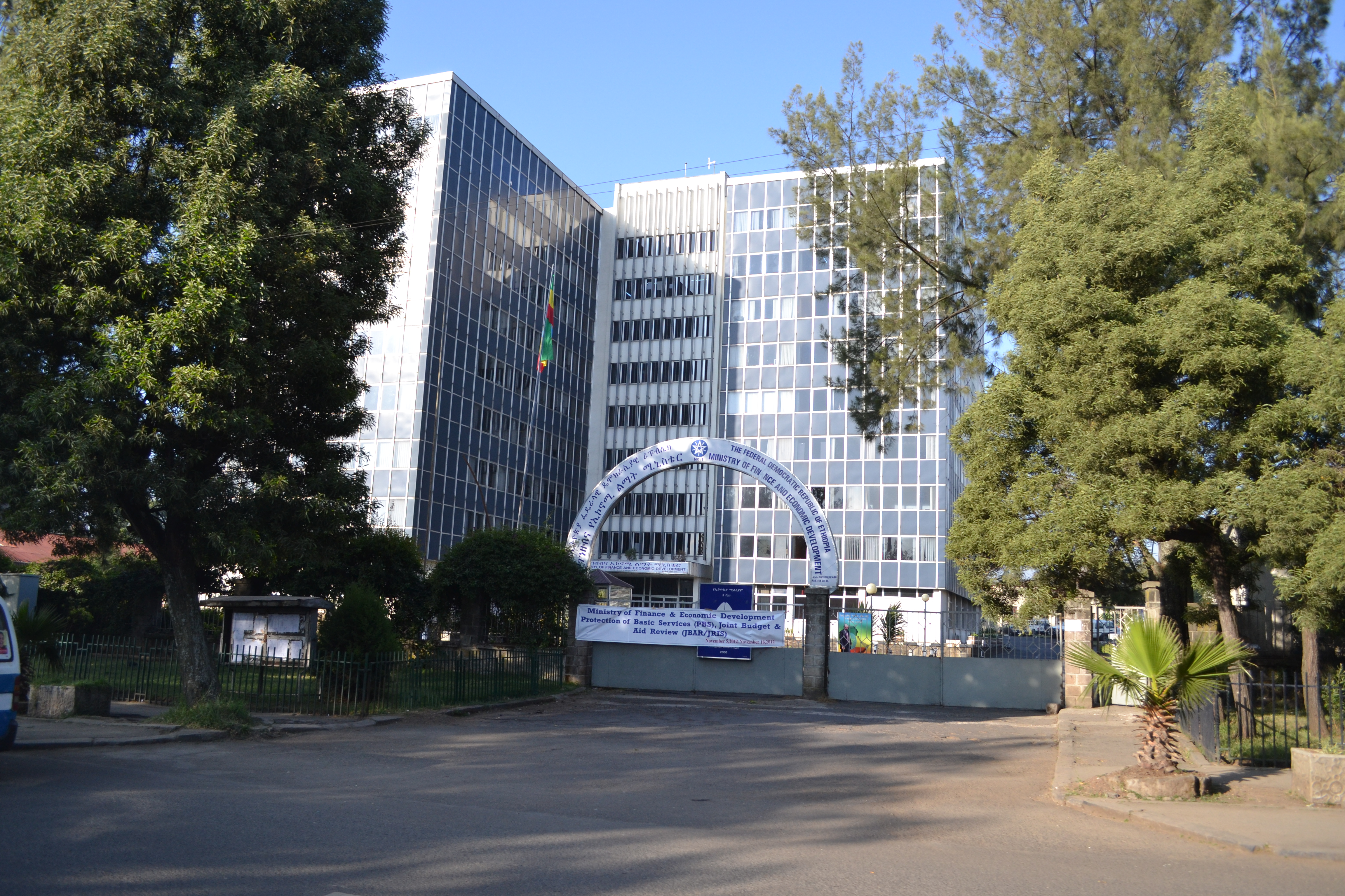 Offices of the Ethiopian Federal Government Ministry of Finance and Economic Development in Addis Ababa